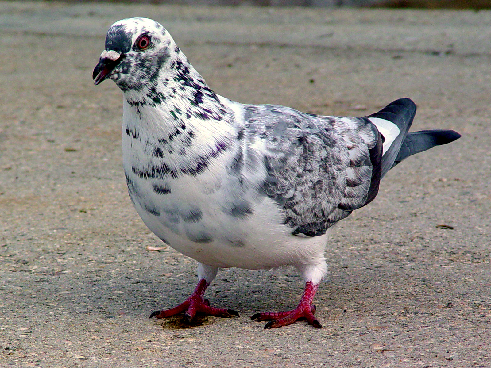 Leucistic Rock Pigeon (Columba livia).